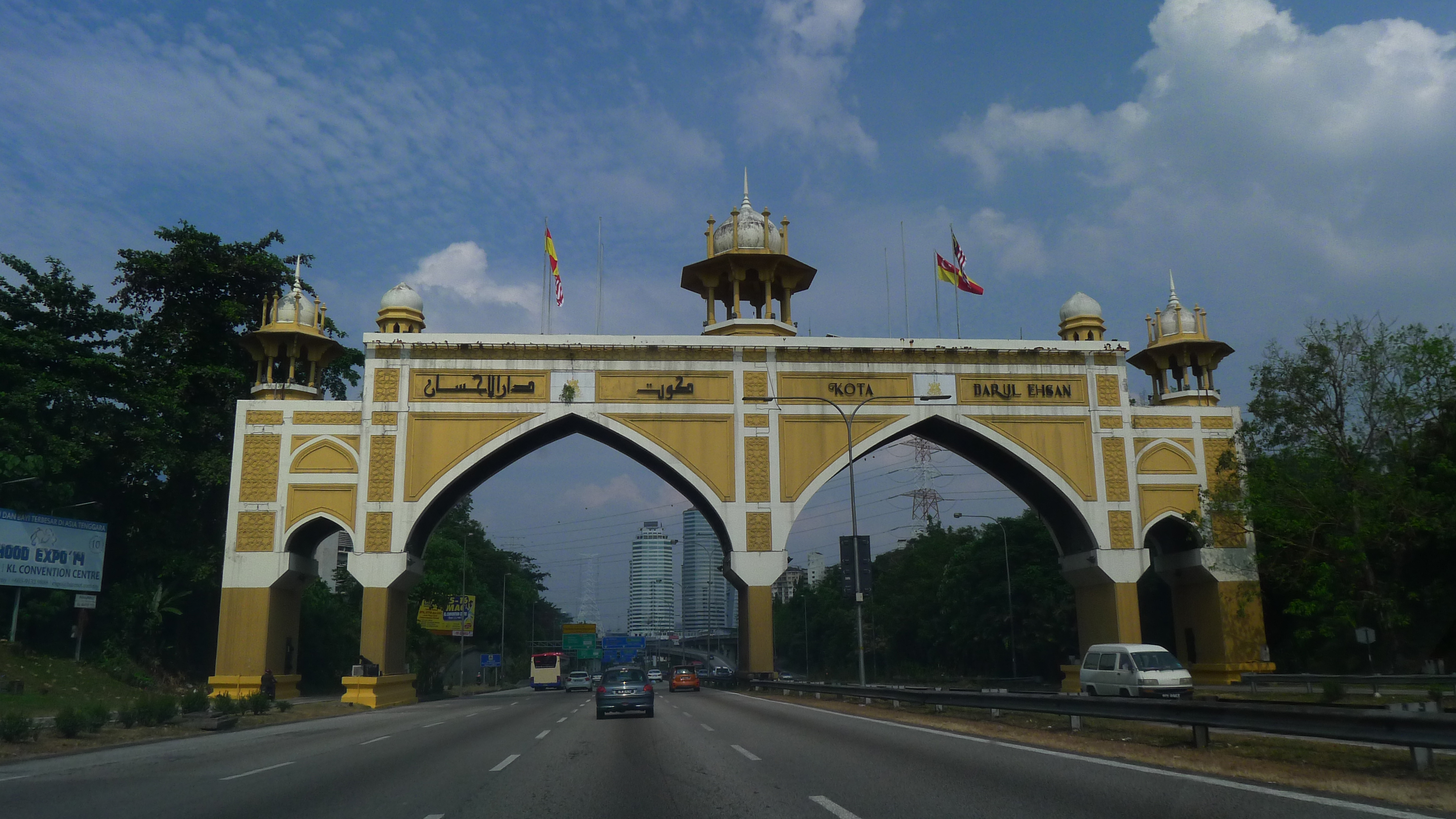 The Kota Darul Ehsan arch on Federal Highway, signifying the border between Federal Territory of Kuala Lumpur and the state of Selangor Darul Ehsan.